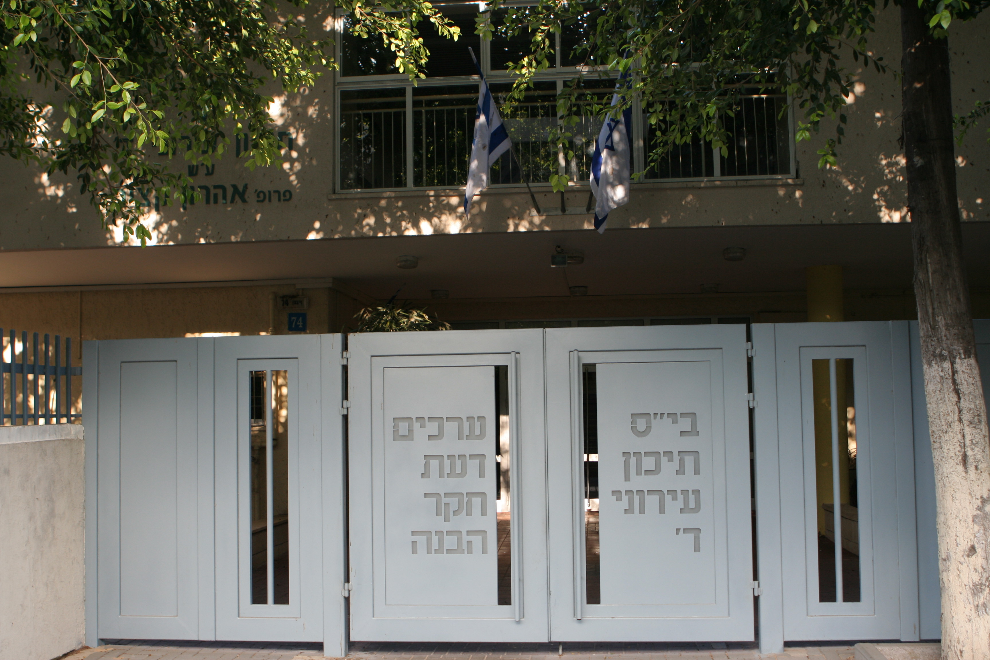 "Dalet" High School - Tel Aviv